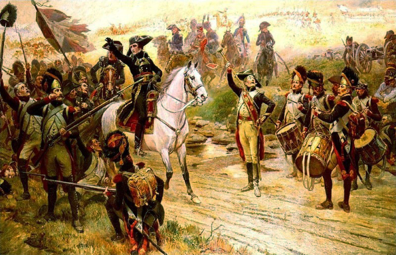 First consul Napoleone Bonaparte at the battle of Marengo